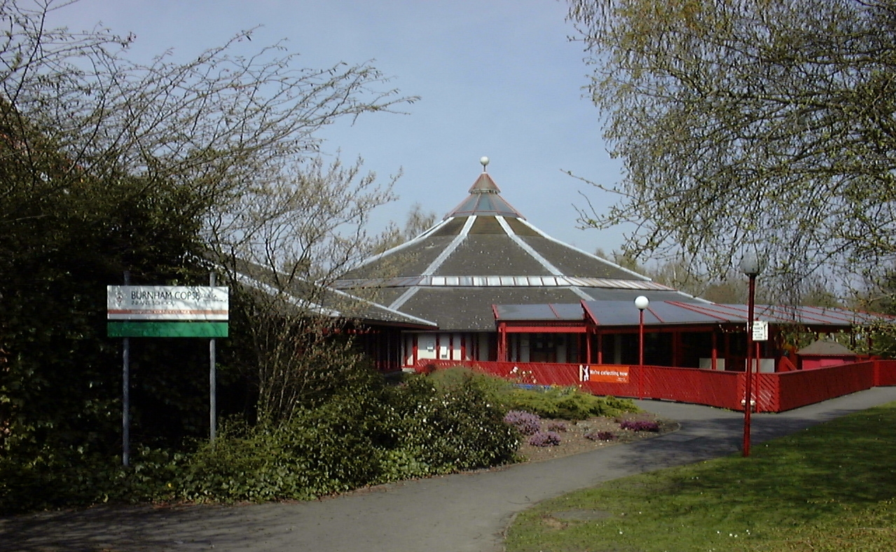 Burnham Copse Infant School, Tadley, England. The picture was taken at approximately 13:00 UTC in hazy sunshine, using a Toshiba PDR-M1 digital camera in Auto mode. The original picture was cropped from the bottom to remove excess foreground. The building now no longer exists.